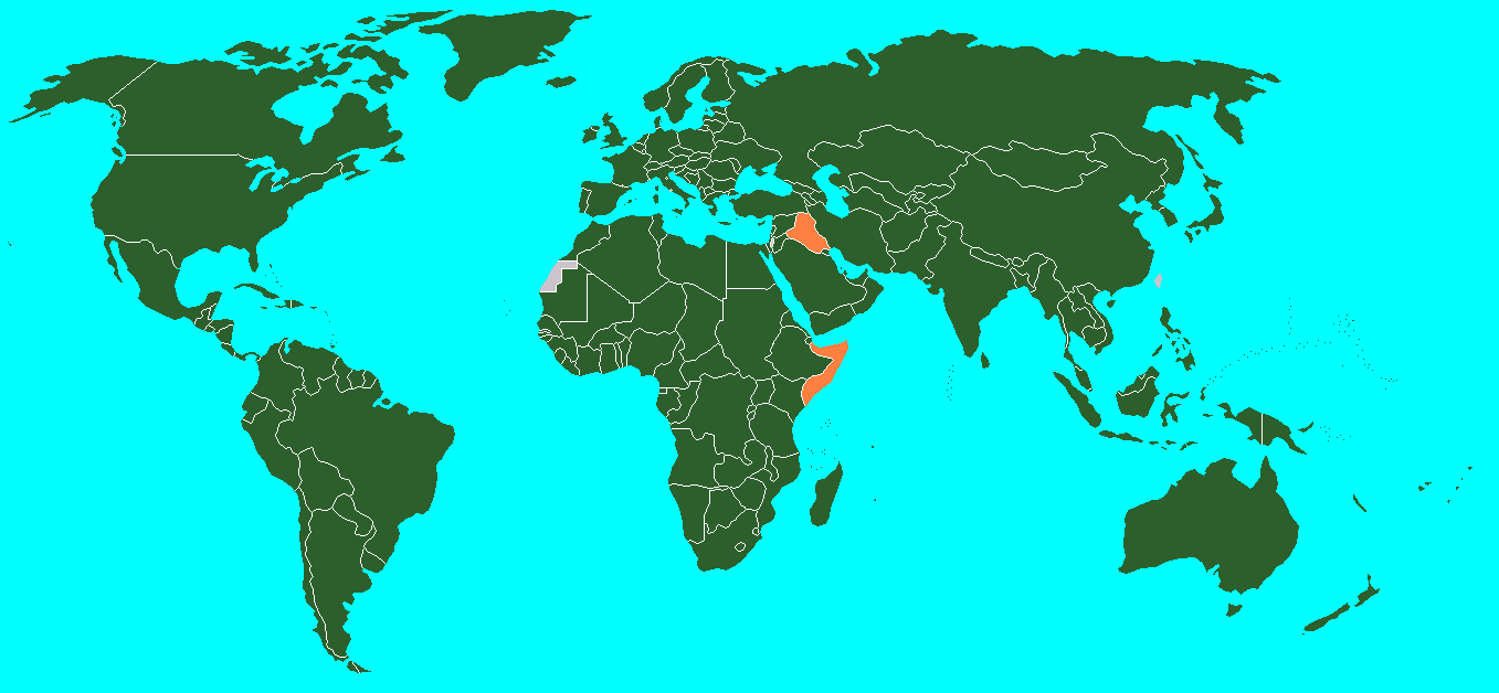 United Nations Framework Convention on Climate Change nations: Green: UNFCCC Member Peach: UNFCCC Observer Gray: Not party to UNFCCC